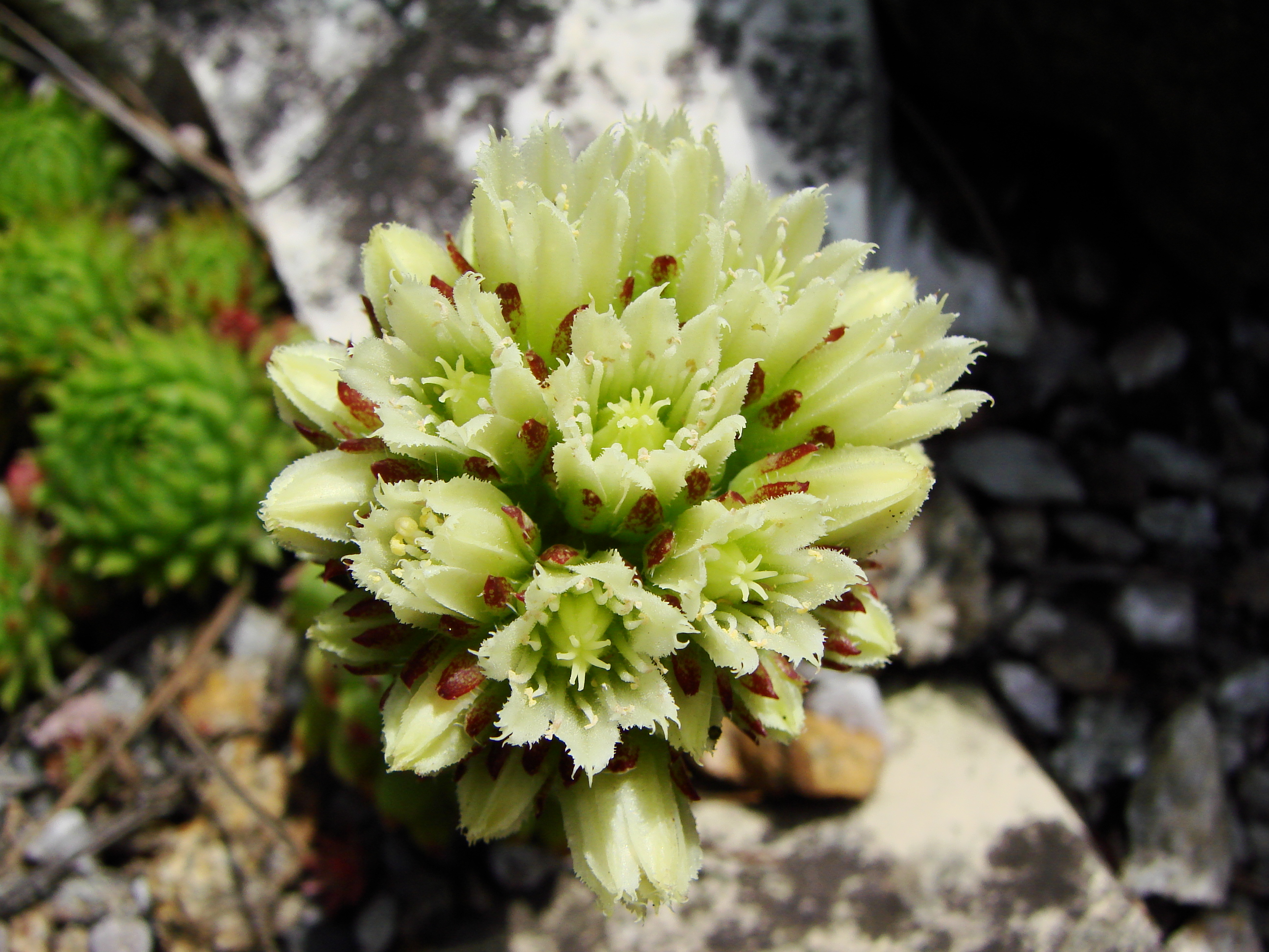 Picture taken in the university botanical garden of Wrocław (Poland): Jovibarba globifera globifera (L.) J.Parn.